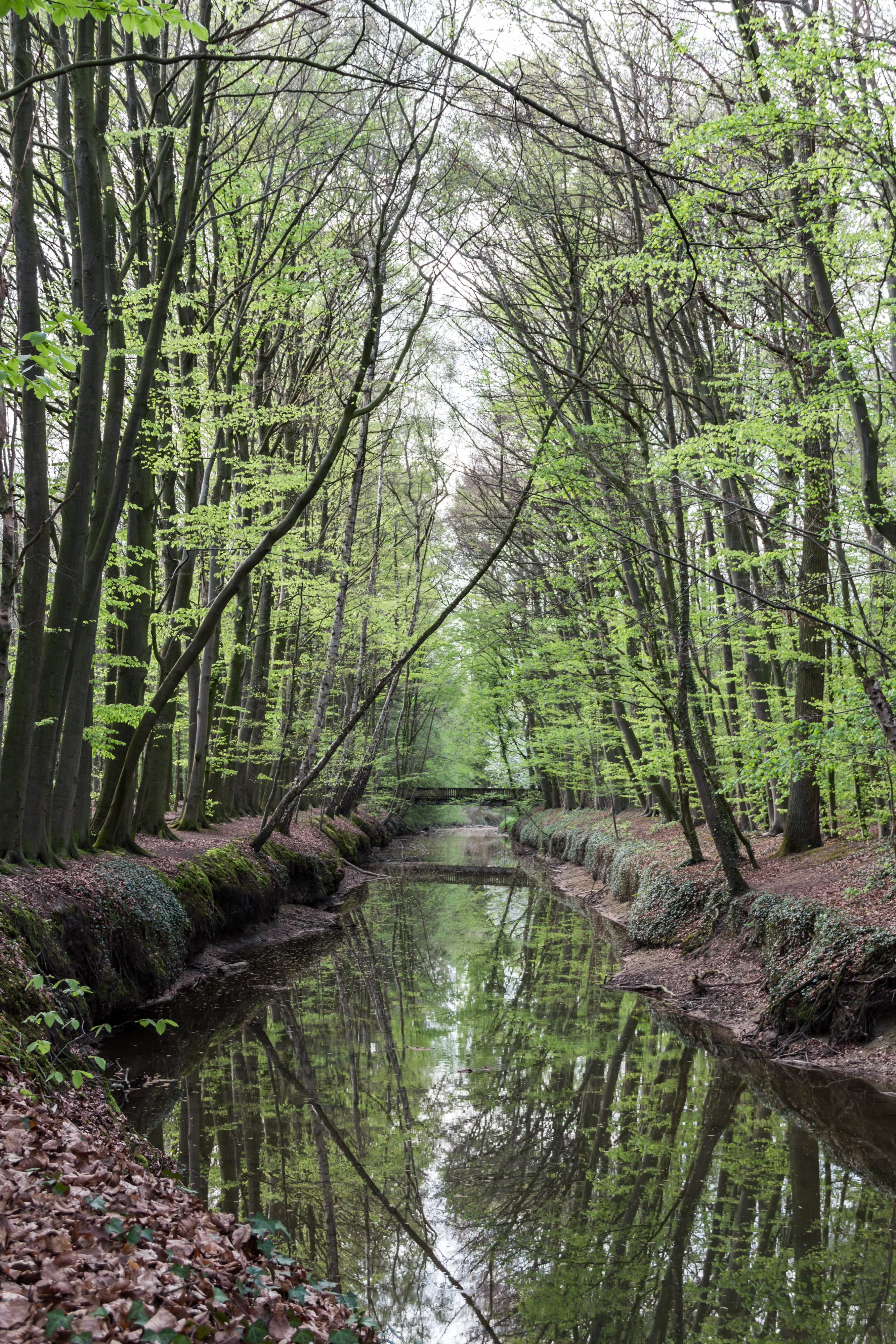 Angel (river) in the Wolbecker Tiergarten in Wolbeck, Münster, North Rhine-Westphalia, Germany